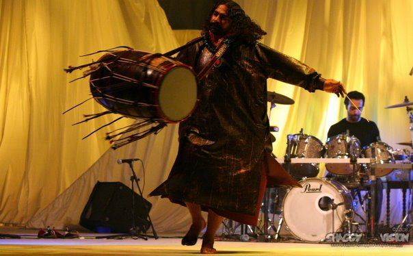 Famous dhol spinning